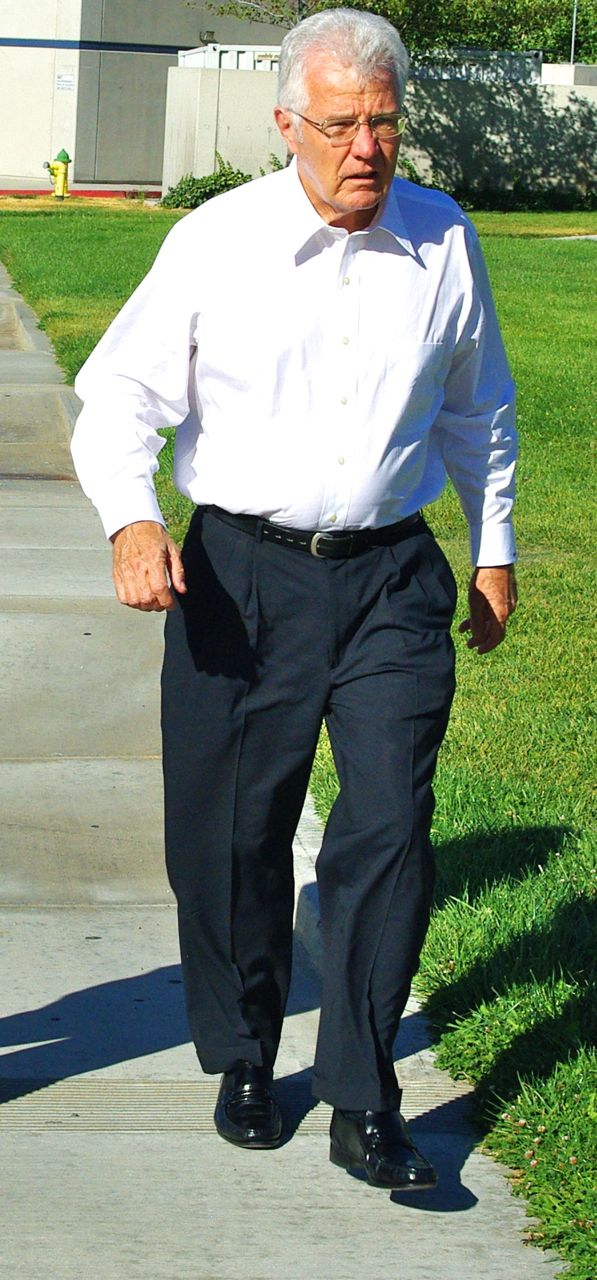 Photo taken by George Garrigues on August 24, 2010, showing Kern County Supervisor Ray Watson hurrying to Frazier Mountain High School to visit refugees during the Post brush fire in the Mountain Communities of the Tejon Pass.